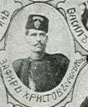 Portrait of IMARO member Zafir Hristov from Machukovo